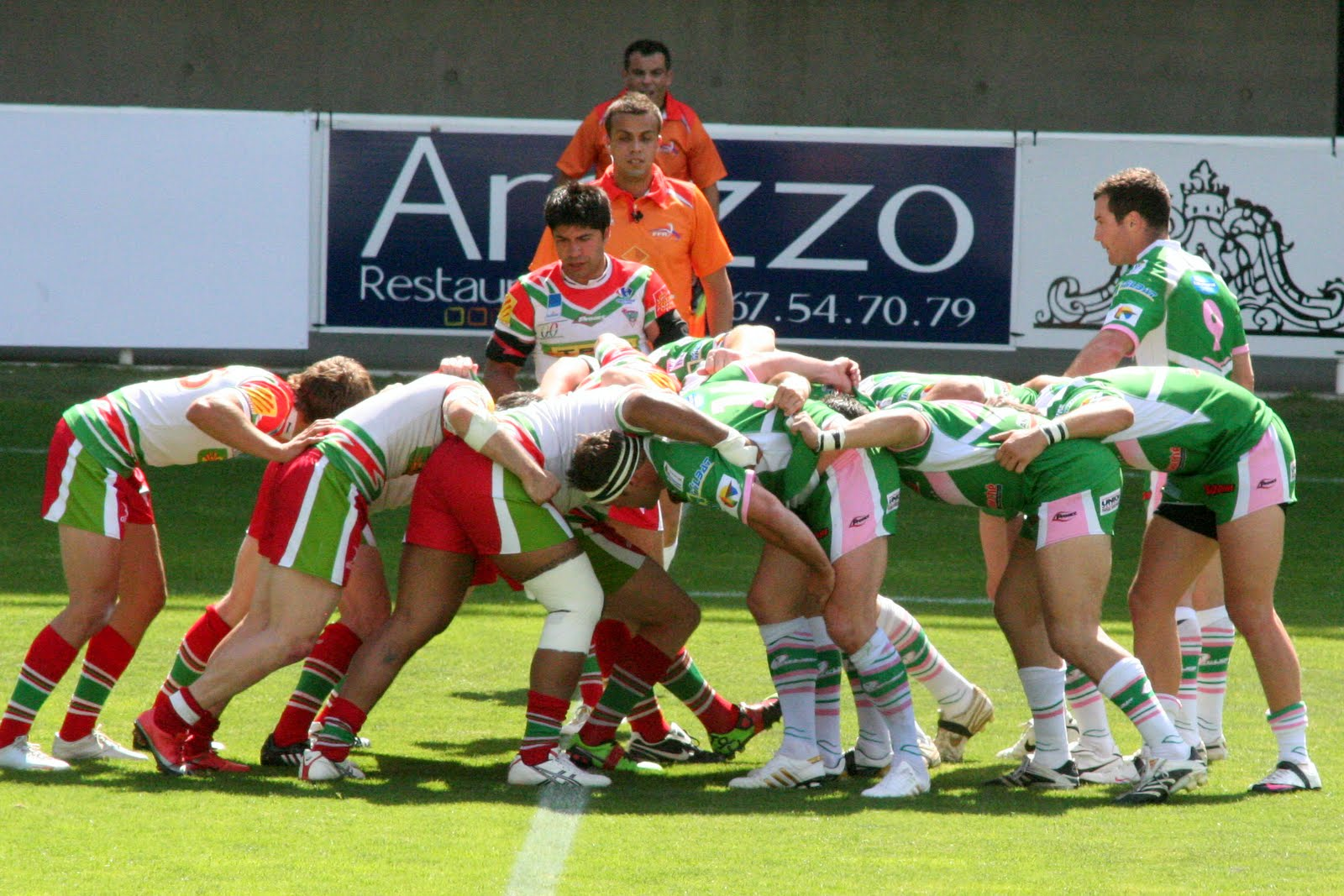 A scrum is formed in the Final of the French Elite Championship in 2009. FCL v PIA.